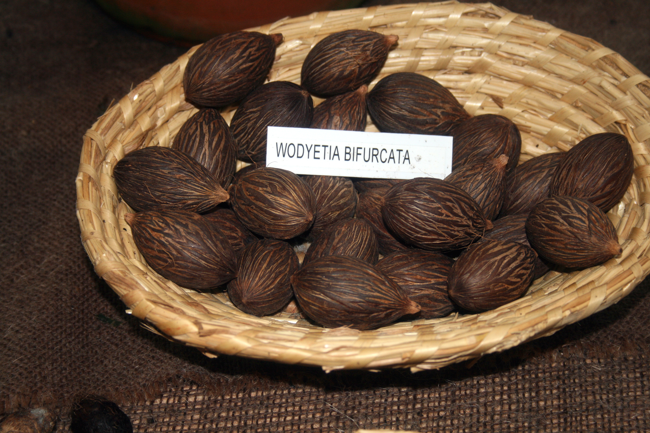 Seeds of palm Wodyetia bifurcata semena palmy Wodyetia bifurcata Botanic garden Prague Date=January 2008 Author= Karelj